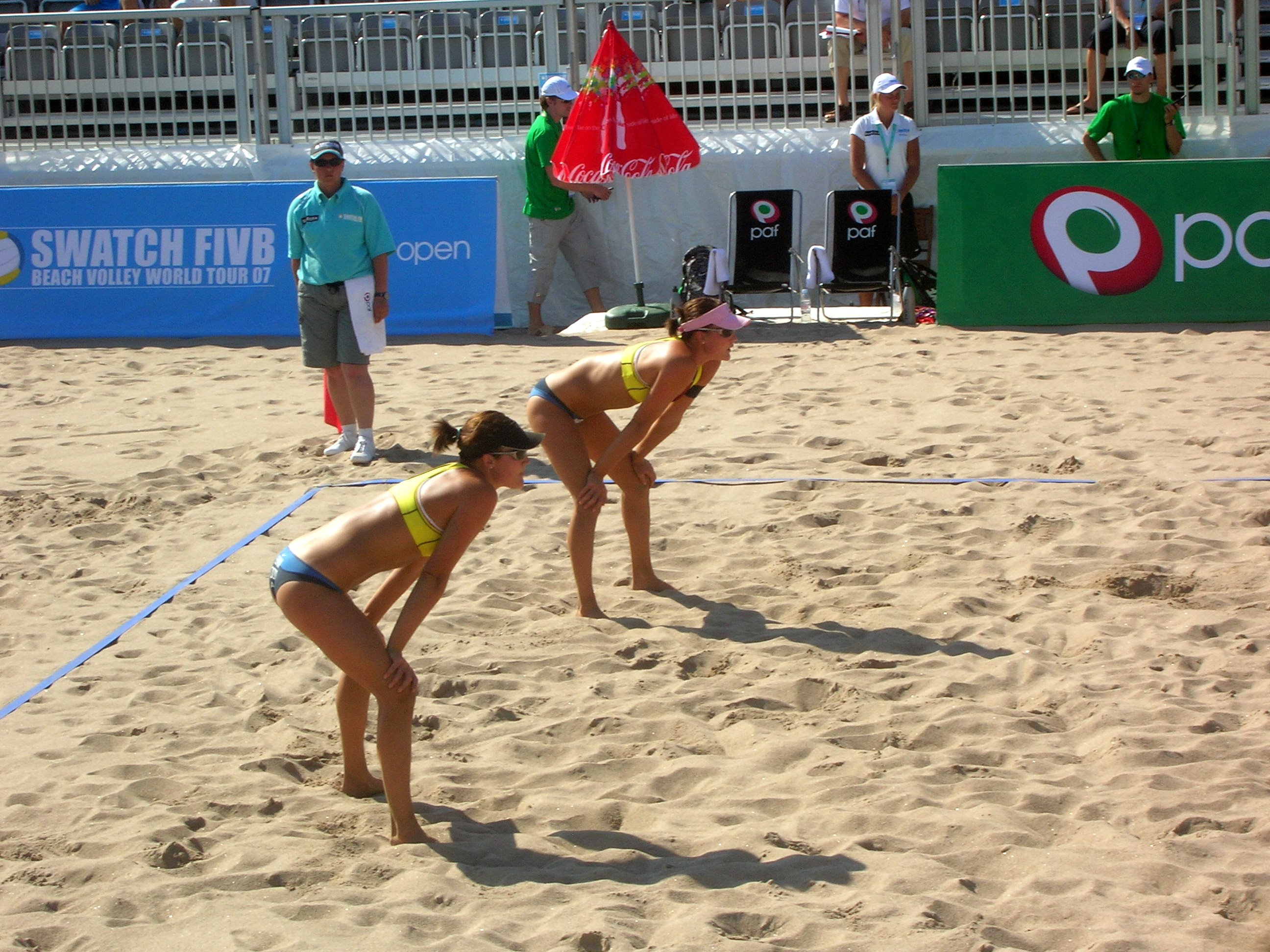 Finnish beach volleyball players Erika (left) and Emilia (right) Nyström at Paf open in Mariehamn, Åland